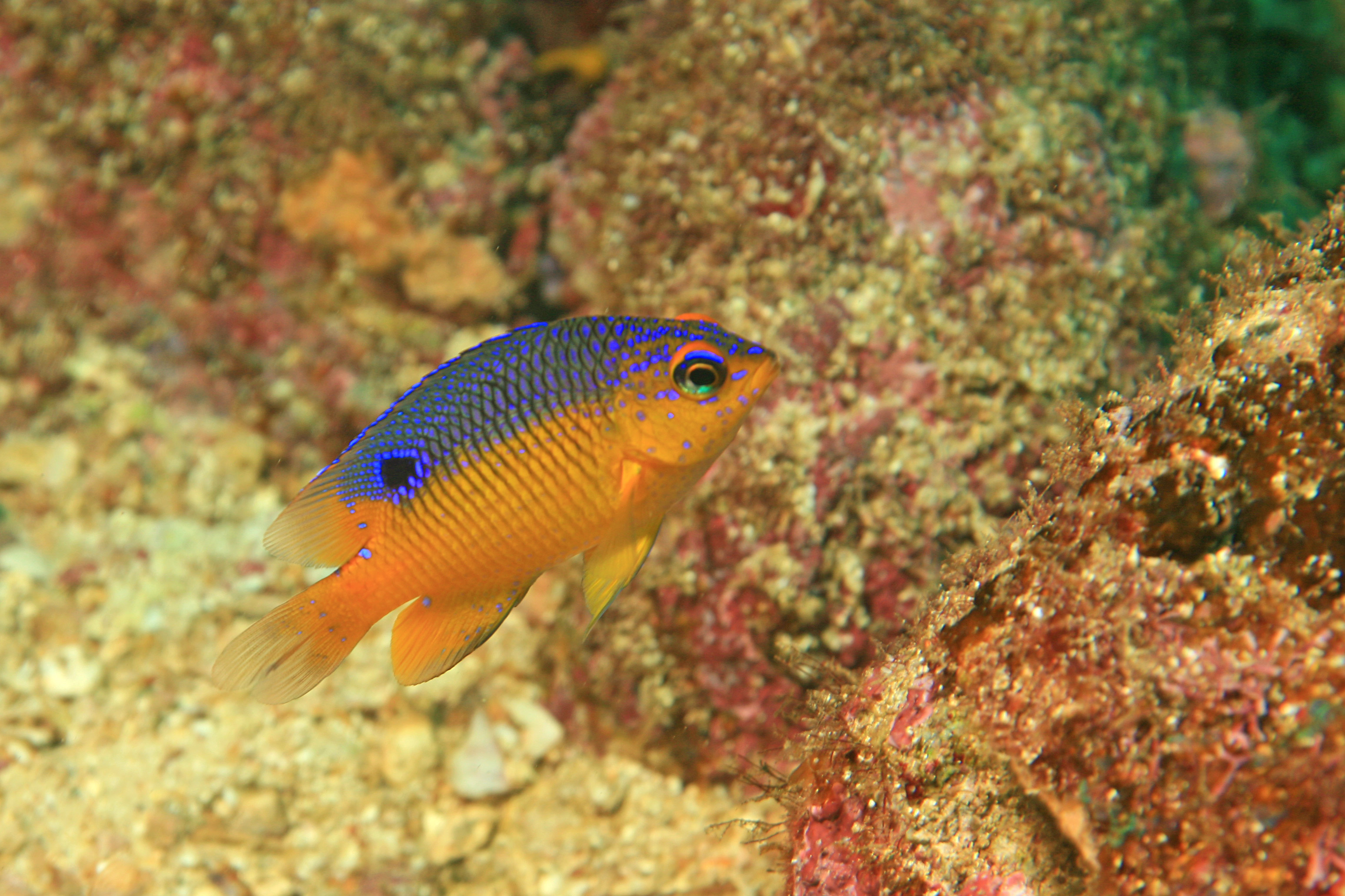 The juvenile Beaubrummel Gregory (Stegastes flavilatus) makes a cute little macro subject. Photographed at Frijoles dive site in Coiba National Park, Panama.